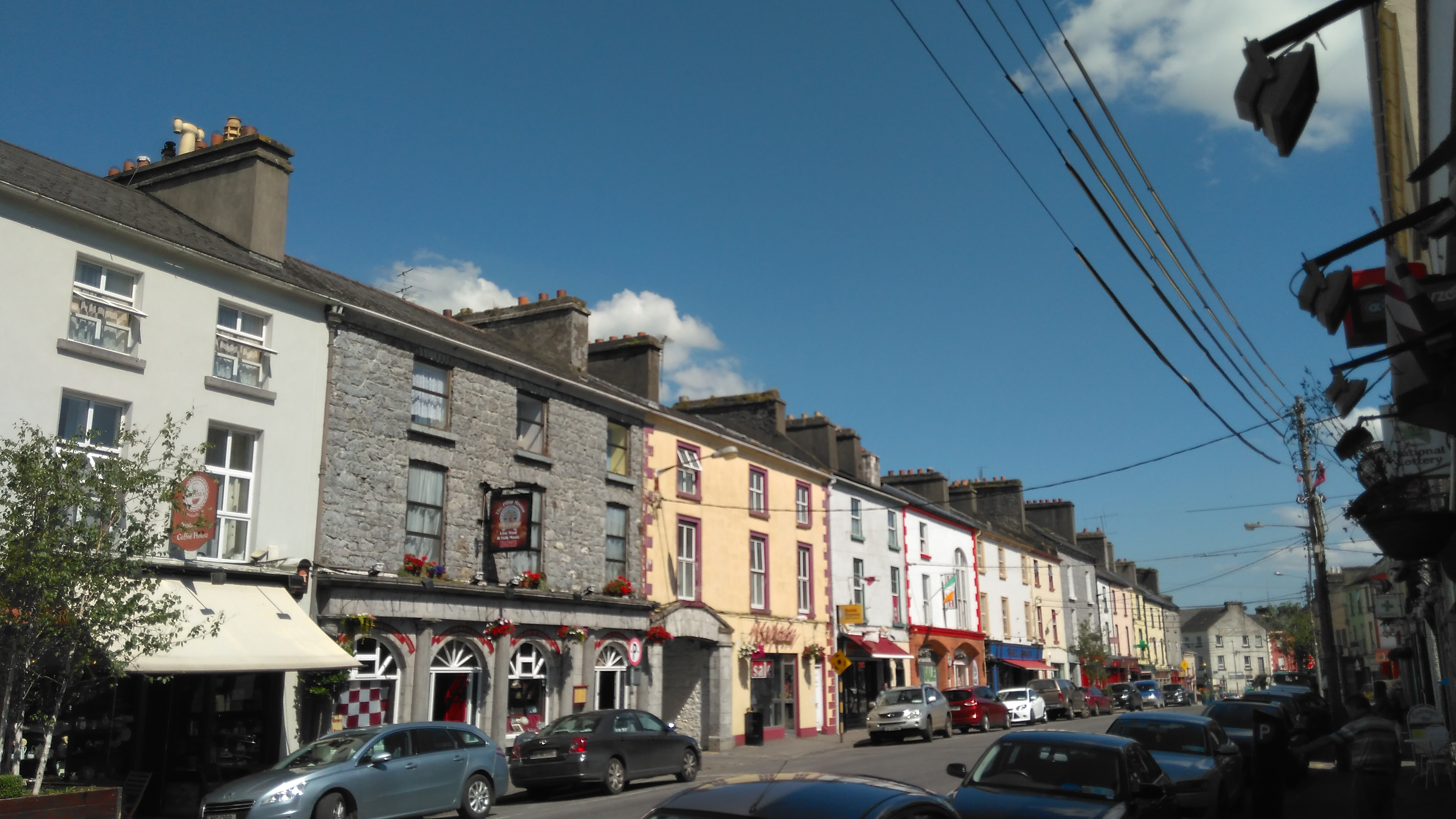 Society St